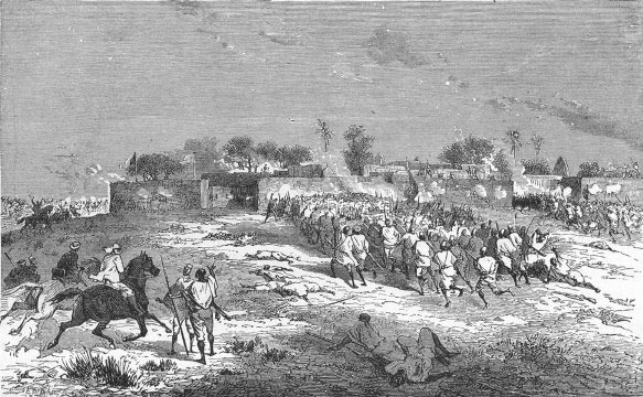 Captioned: "Il re bambara Ahamadou attacca Sansanding - stampa '800"